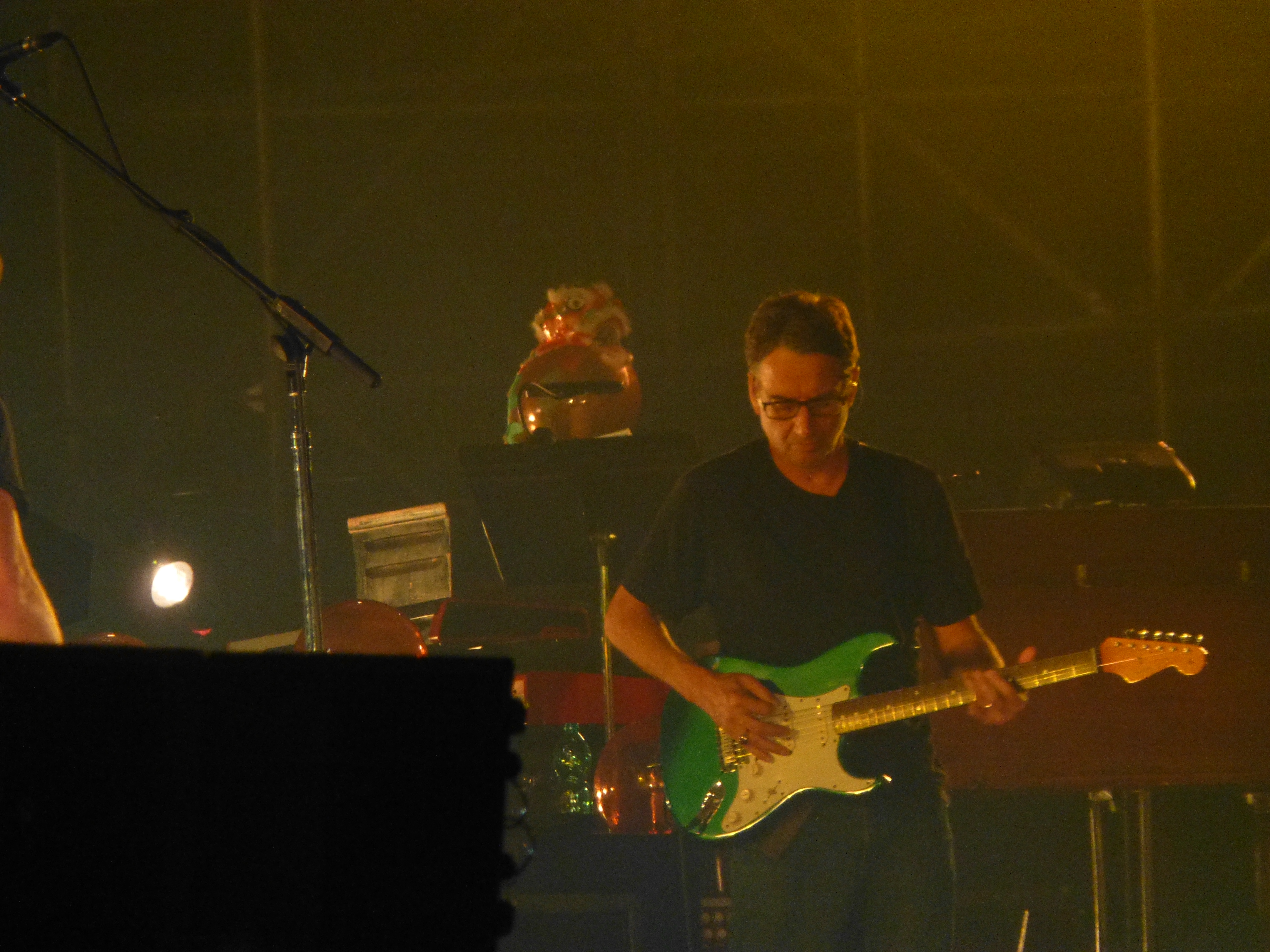 Stone Gossard of Pearl Jam at the Stadio Euganeo in Padova